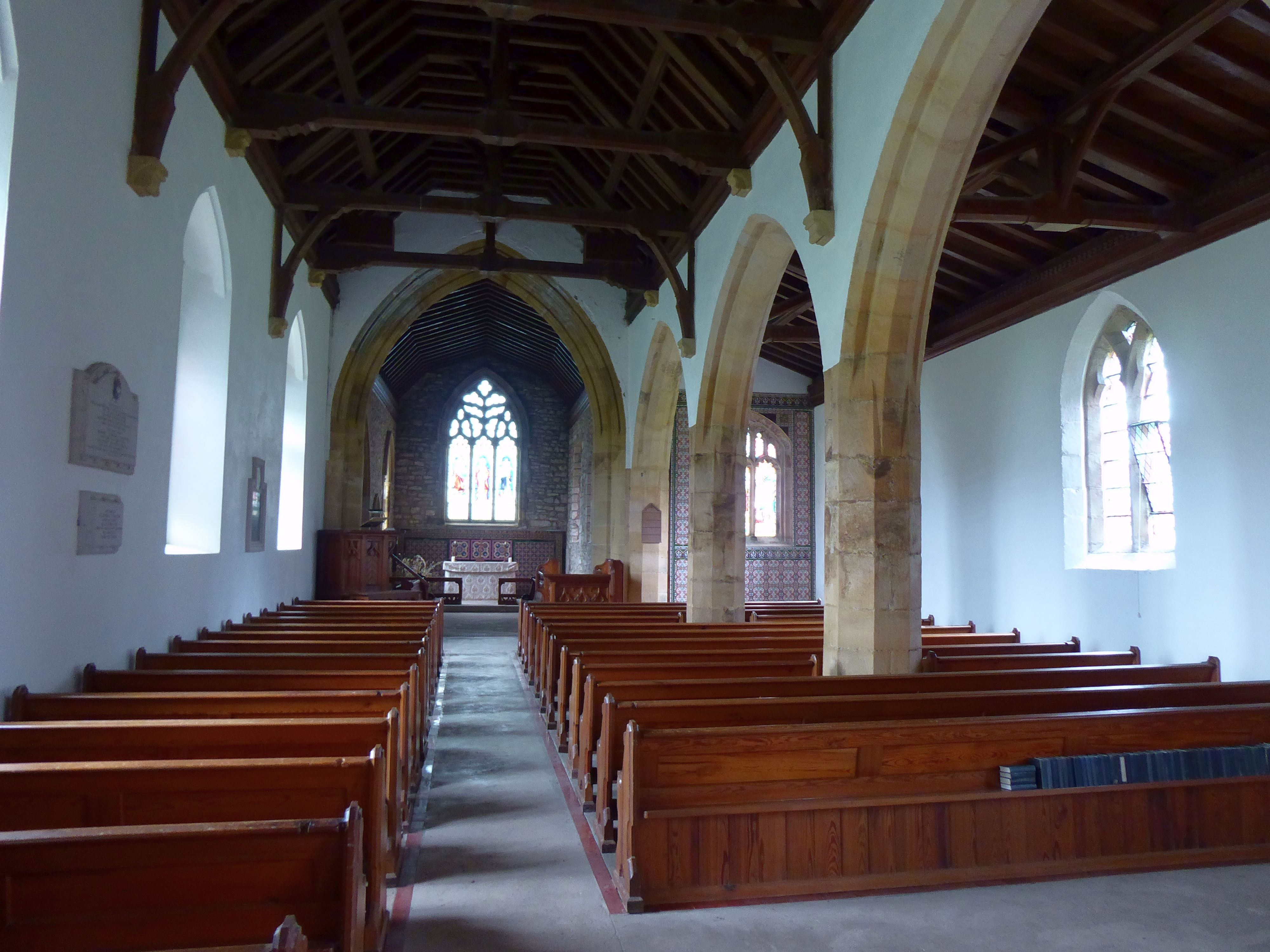 Holy Trinity Church, Coverham